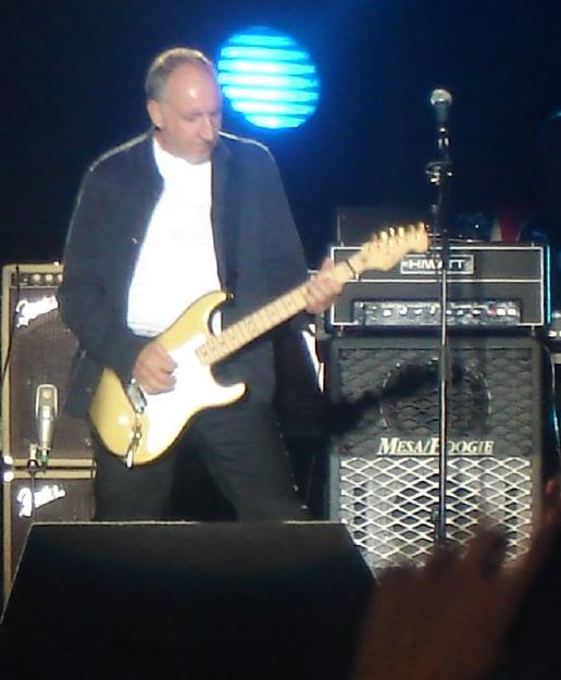 Pete Townshend at Beaulieu standing in front of his amps